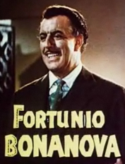 Cropped screenshot of Fortunio Bonanova from the trailer for the film Fiesta